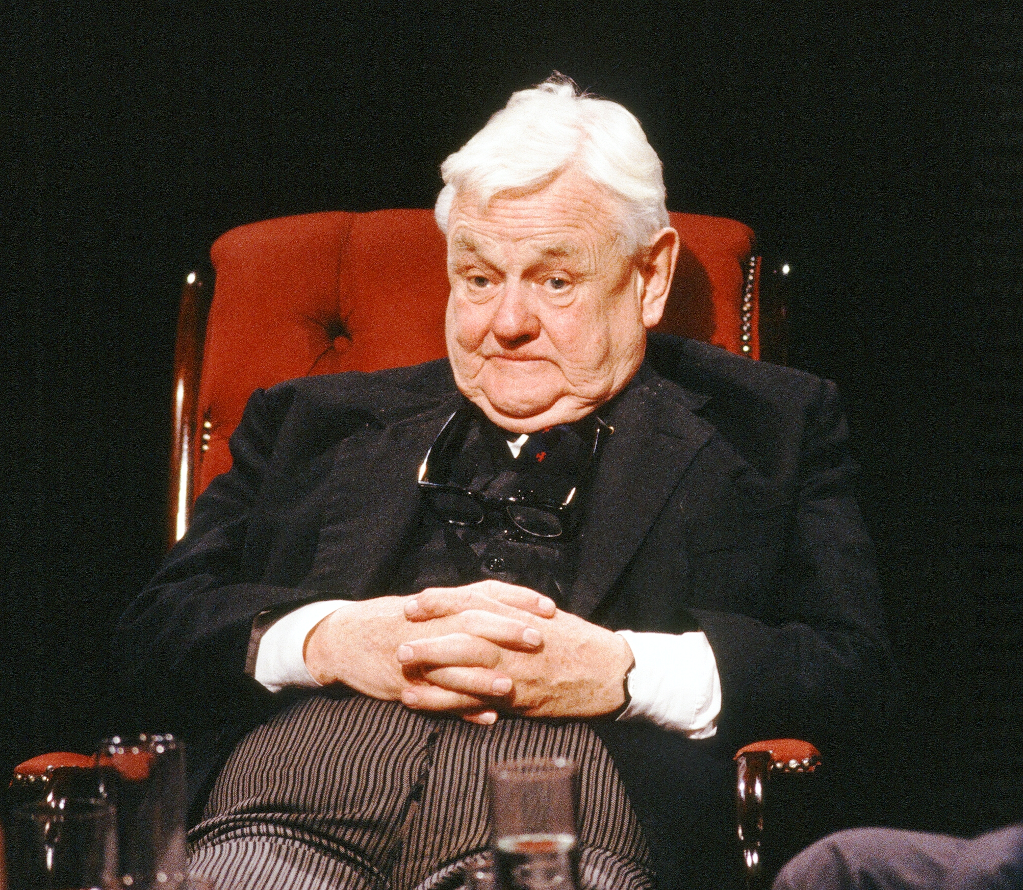 Lord Hailsham appearing on After Dark on 28 May 1988. Other guests included David Irving, Anthony Montague Browne, David Reynolds and Jack Jones. More here.